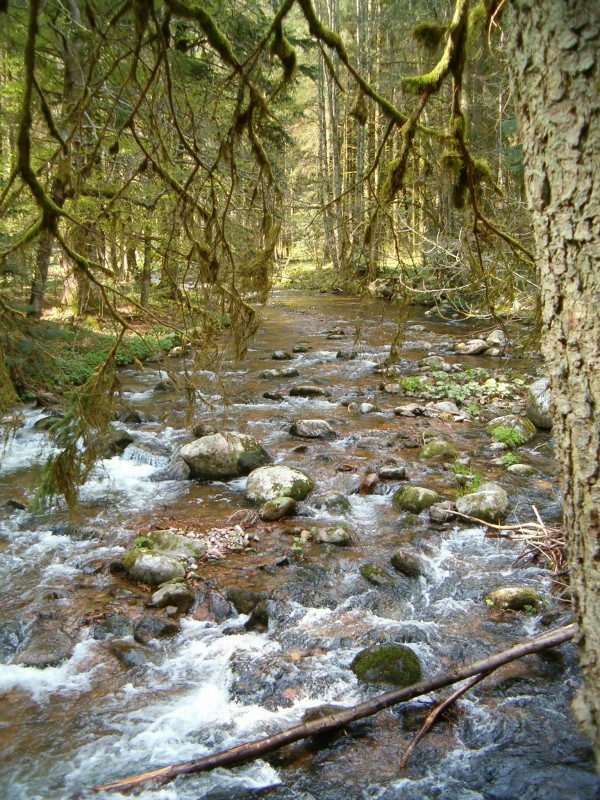 The Schwarza river in the southern Black Forest between the Witznau reservoir and "Leinegg" (the latter at the confluence with the Fohrenbach creek).